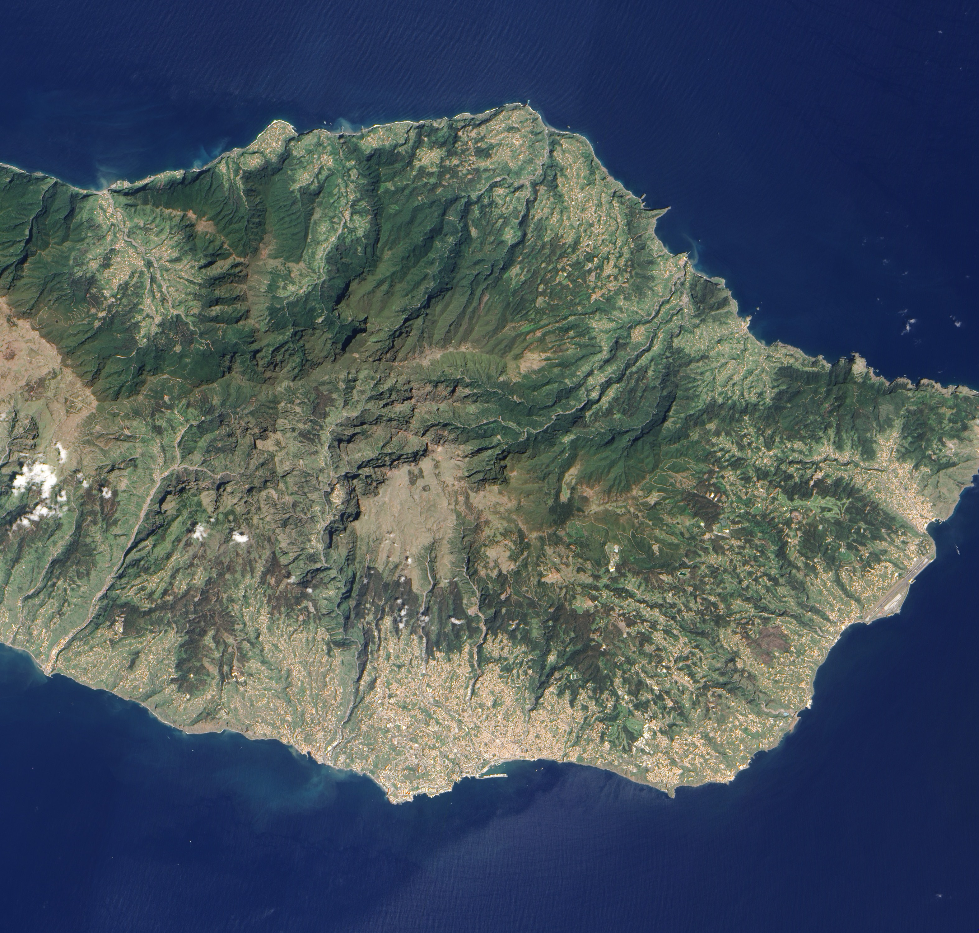 Detailed, true-colour image of Madeira. The image shows that deep green forest survives intact on the steep northern slopes of the island, but in the south, where terrain is gentler, the terracotta colour of towns and the light green colour of agriculture are more dominant.